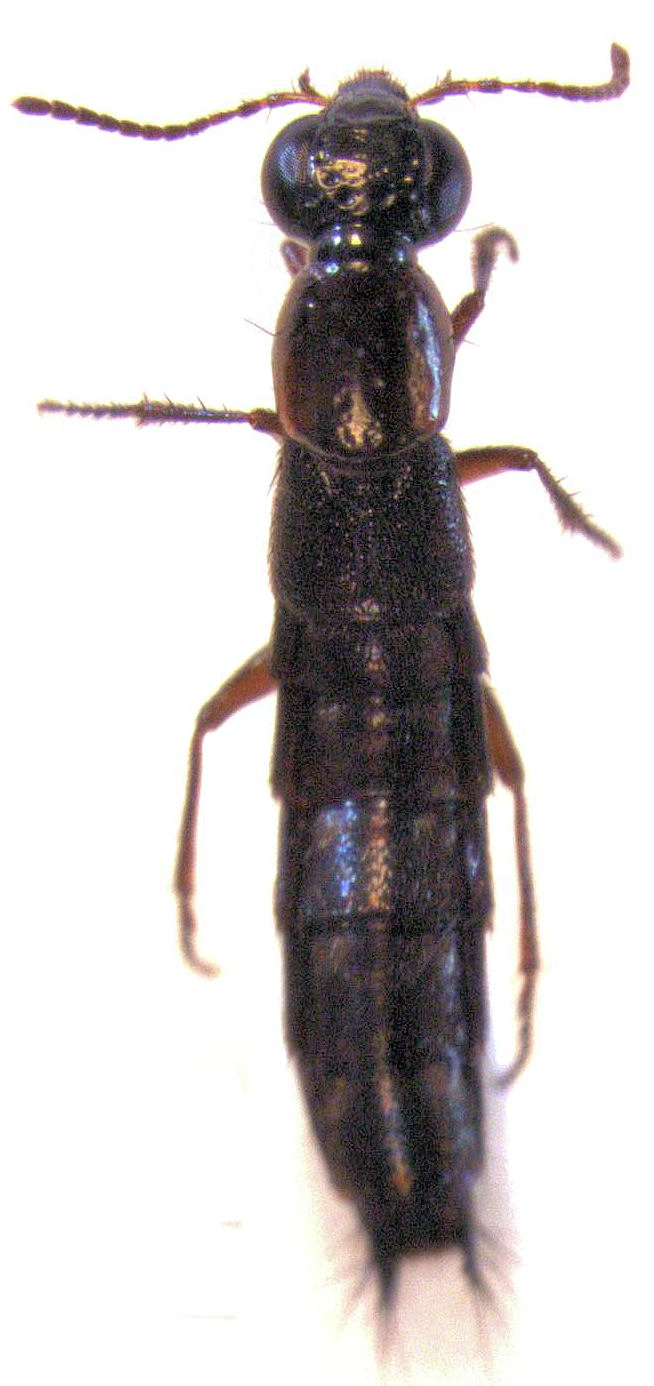 Quedius aliiceps Cameron, 1948 (adult, length about 6 mm)